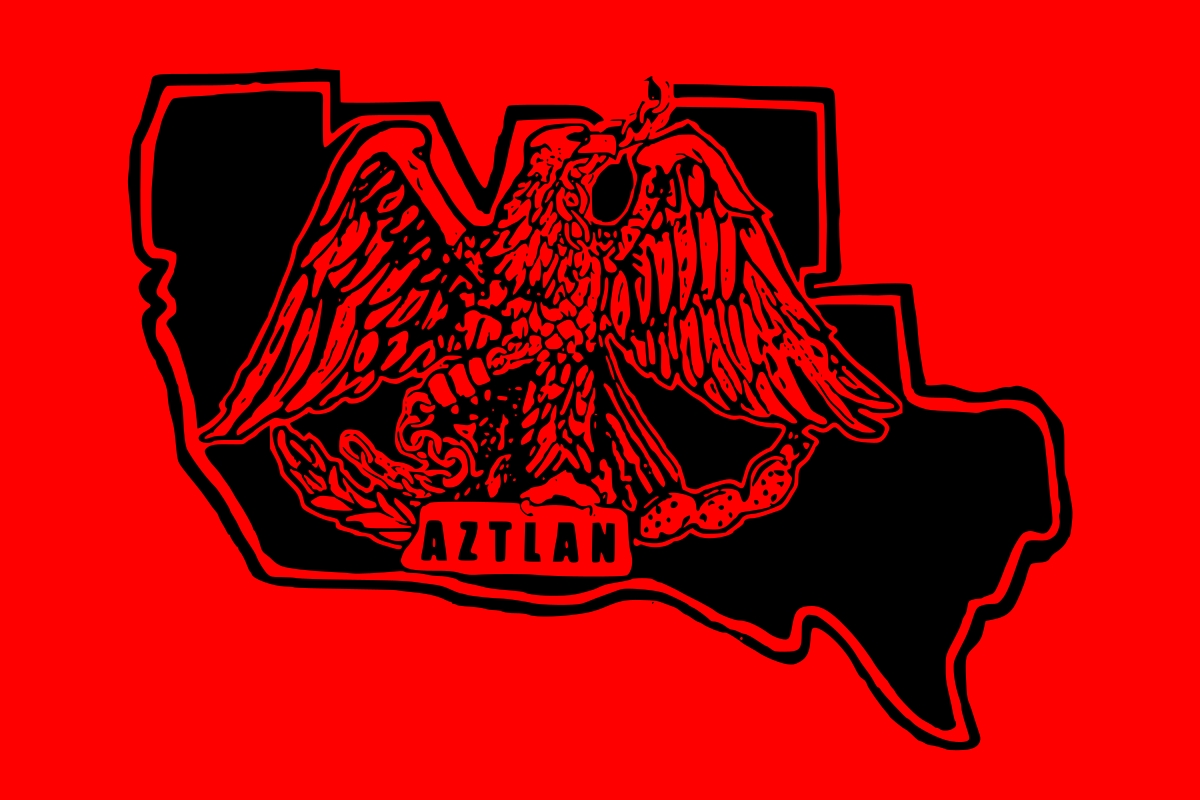 Flag Of Aztlan used by La Raza Unida and other Chicano activists.